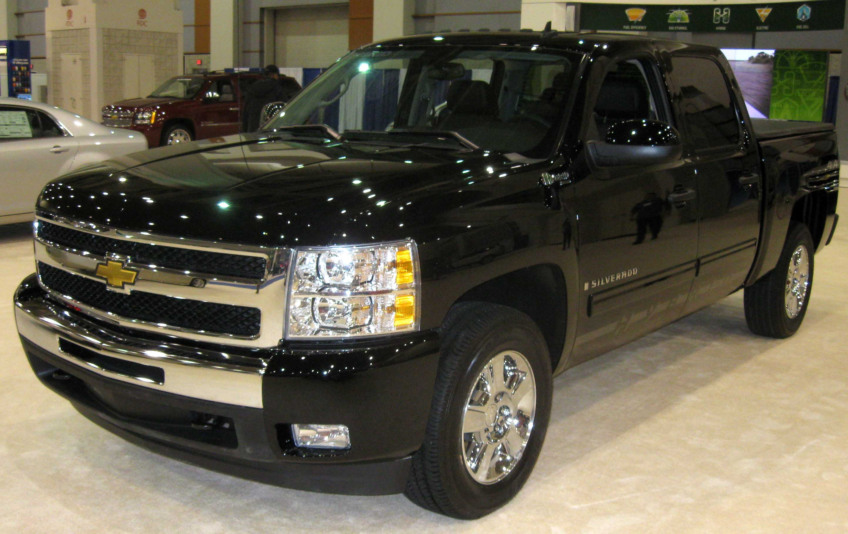 2009 Chevrolet Silverado photographed at the 2009 Washington DC Auto Show.